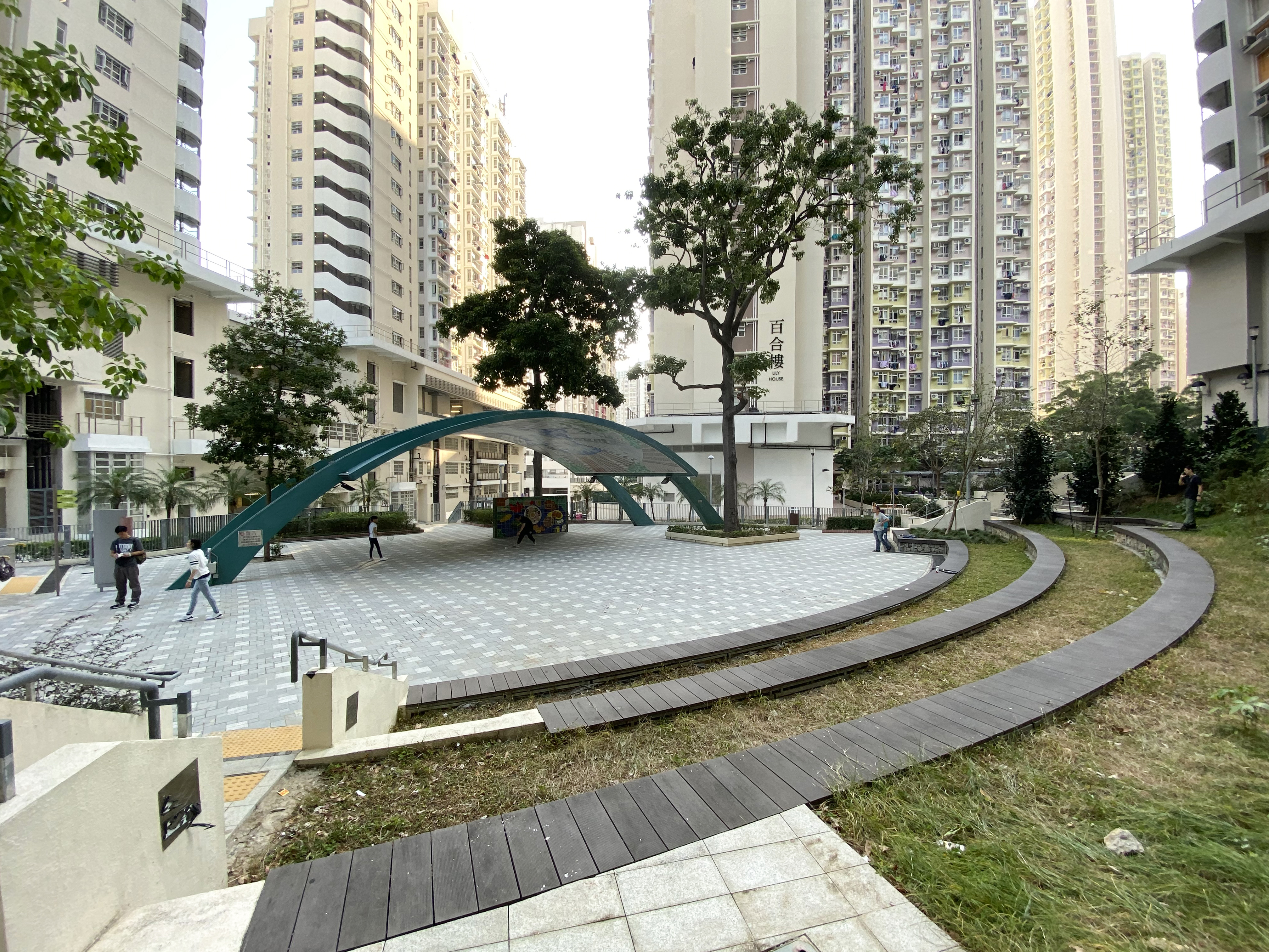 So Uk Estate Amphitheatre